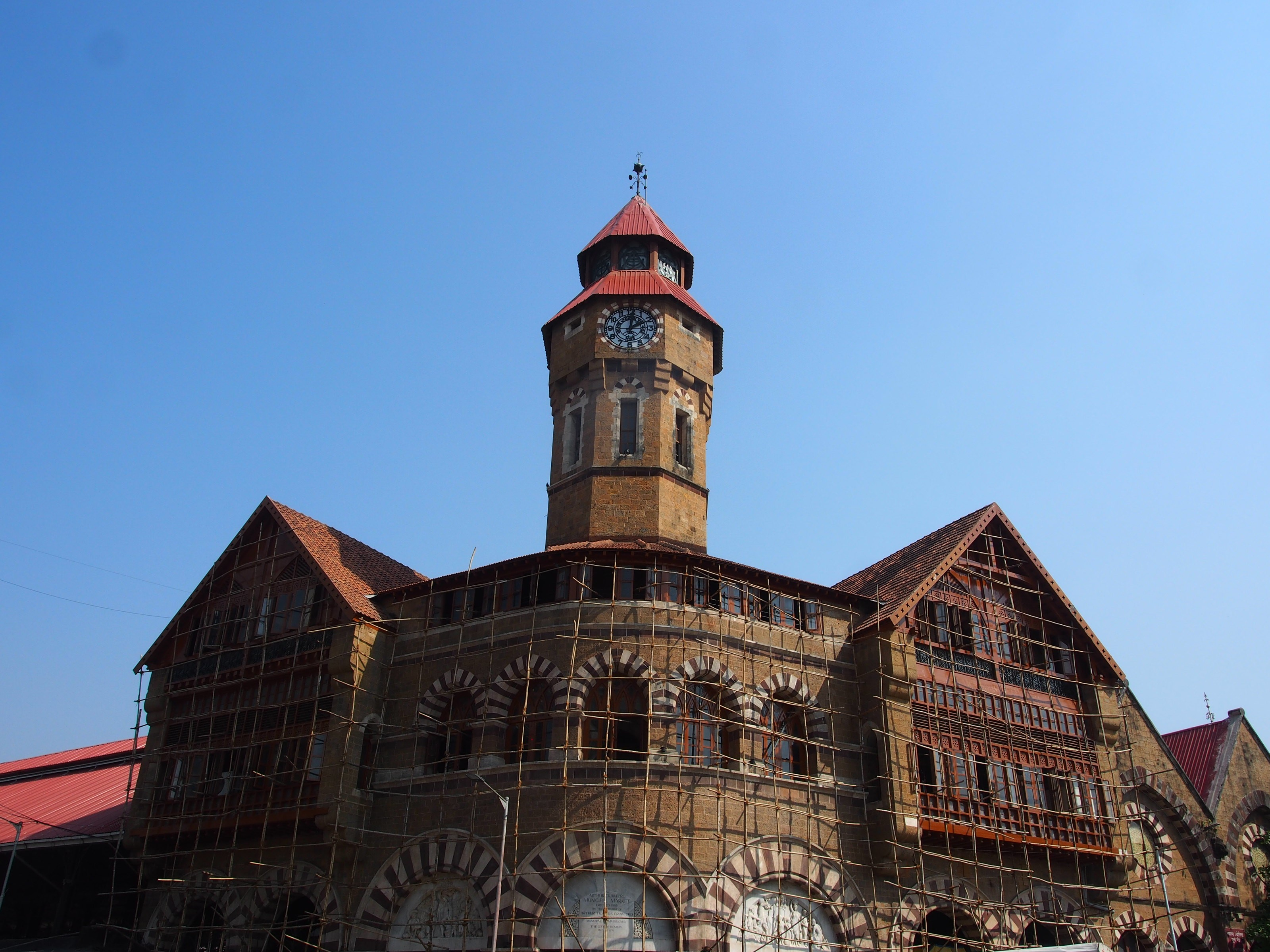 Crawford Market Corner View 2018